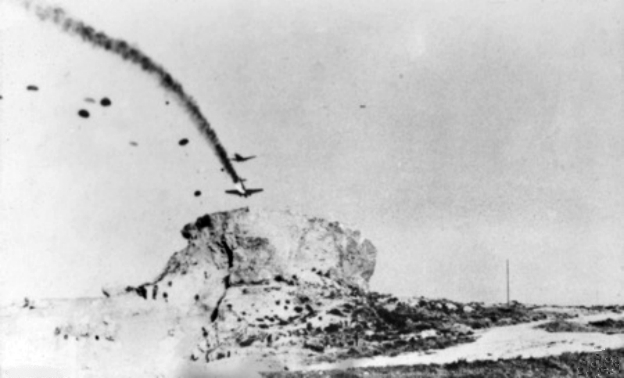 A stick of German paratroopers exiting from a Junkers Ju 52 transport aircraft near the town of Heraklion during the German airborne assault on the north coast of Crete. A second Ju 52 is burning and trailing smoke, after being hit by allied ground fire.